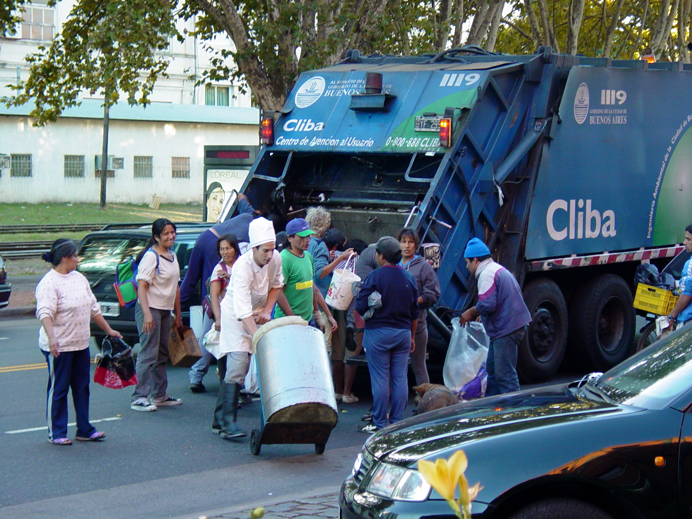 At the height of the economic crisis in Argentina, people gather for scraps from a restaurant near the docks, Buenos Aires. April 2003.